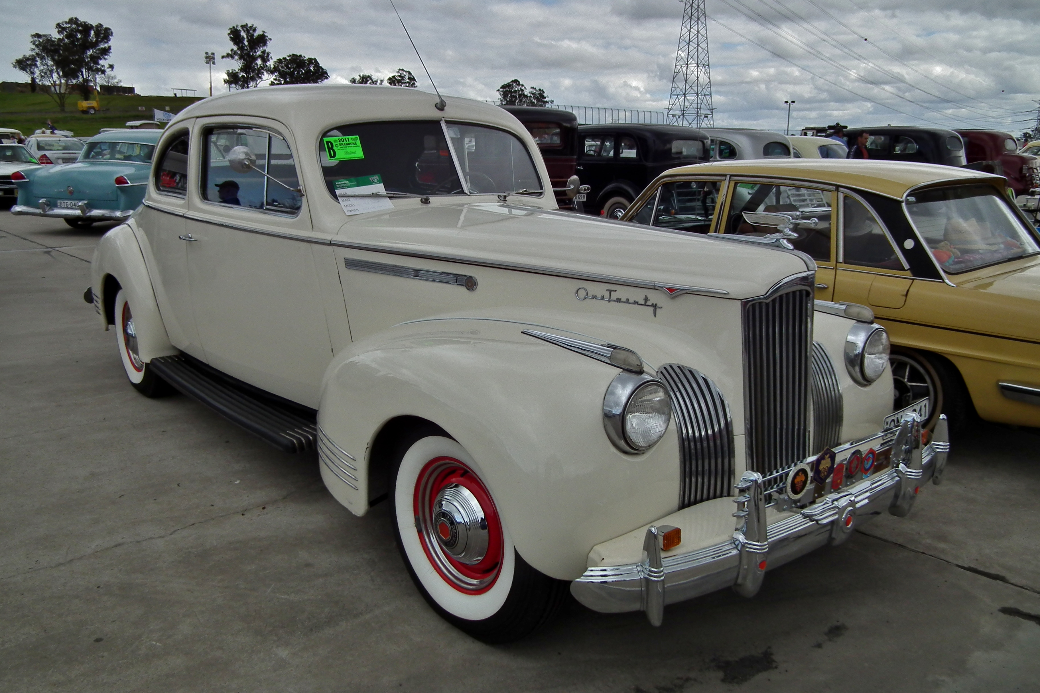 1941 Packard One-Twenty Club coupe. Taken at Shannon's Eastern Creek Classic 2011, held at Eastern Creek Raceway Sydney.